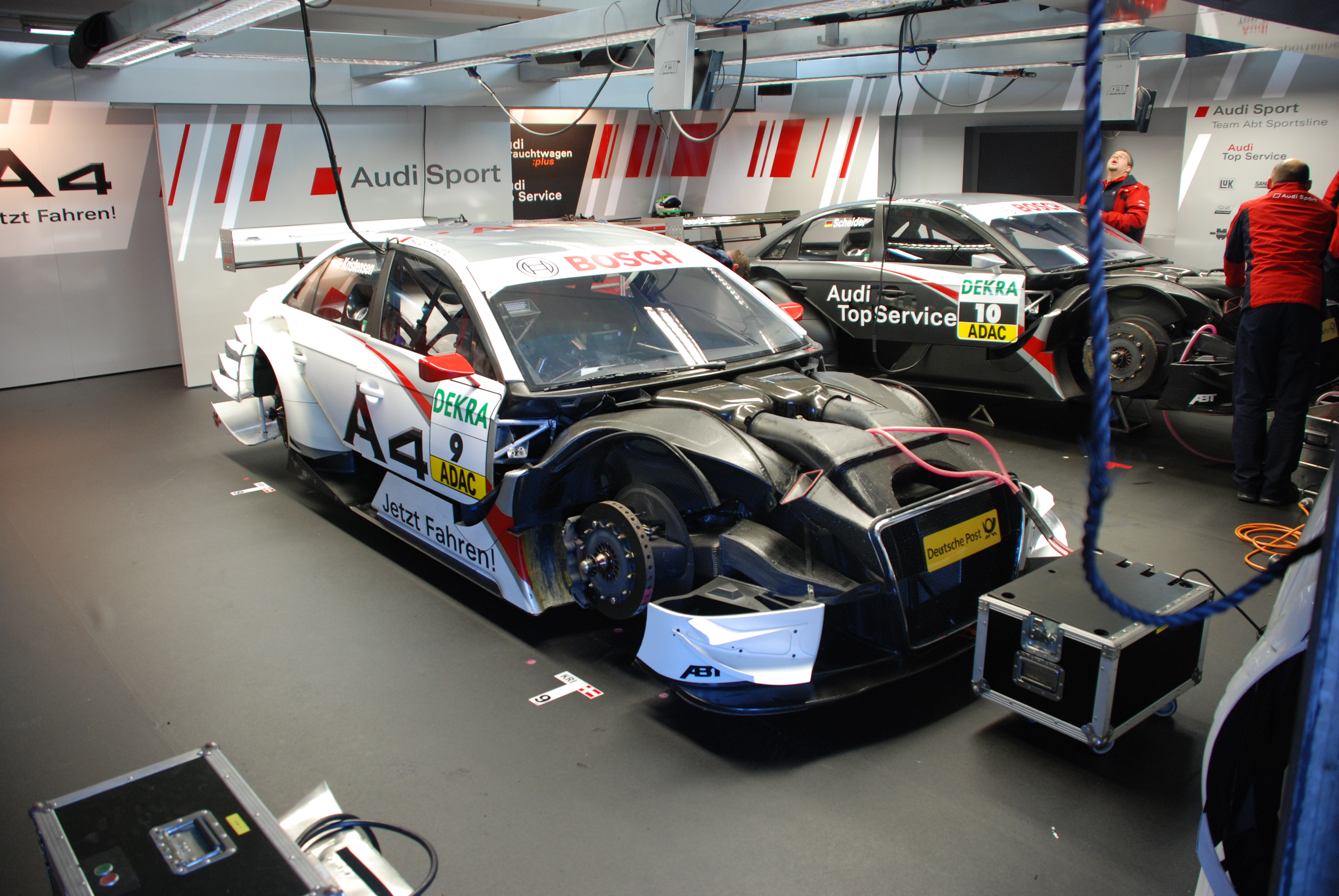 Audi A4 DTM